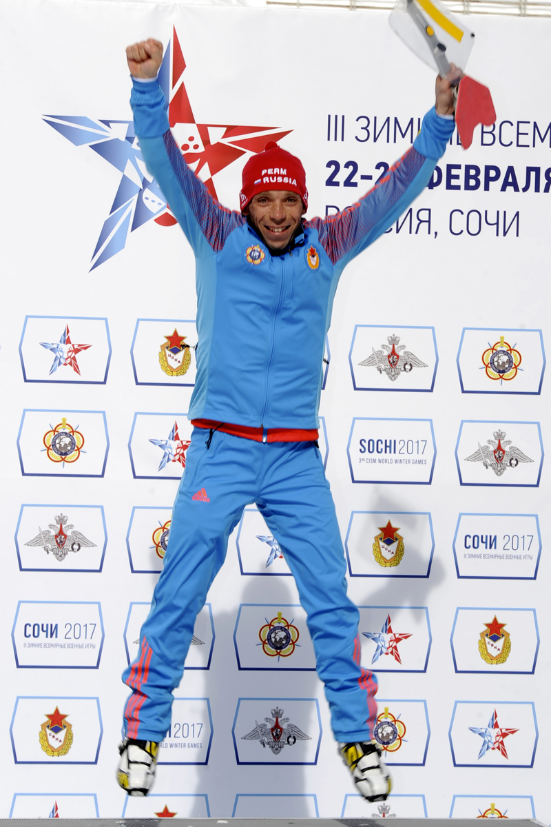 ХРЕННИКОВ Эдуард (Россия). Лыжное ориентирование, спринт, мужчины. III Зимние Всемирные военные игры. Лыжно-биатлонный комплекс «Лаура», Сочи, Россия. 26 февраля 2017. Фото Alexander Fedorov/CISM2017KHRENNIKOV Eduard (Russia). Ski Orienteering, Sprint, Men .3rd CISM World Winter Games. Laura Cross-Country Ski&Biathlon Centre, Sochi, Russian Federation. February 26, 2017. Photo by Alexander Fedorov/CISM2017